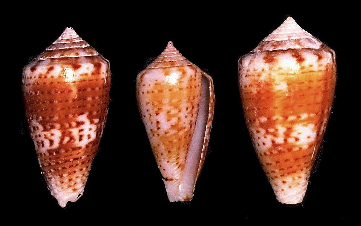 Conus boeticus Reeve, 1844; Philippines